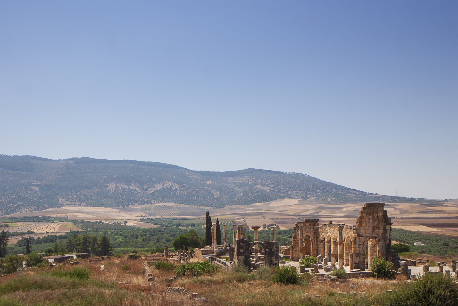 The Basilica and Capitoline Temple as seen from the top of the Tumulus, a sacred area which, it is said, served as the burial mound for the people of Volubilis before it was built as a Roman town.